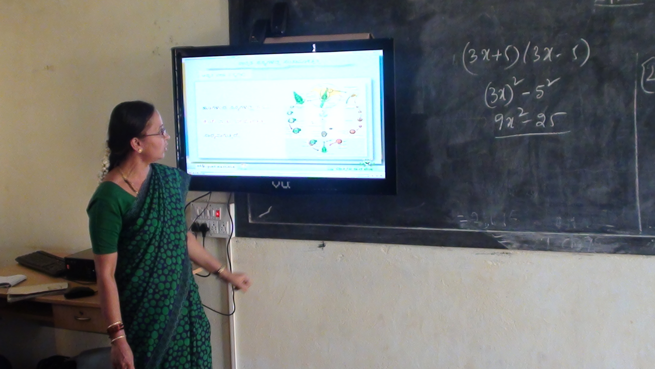 e-pata